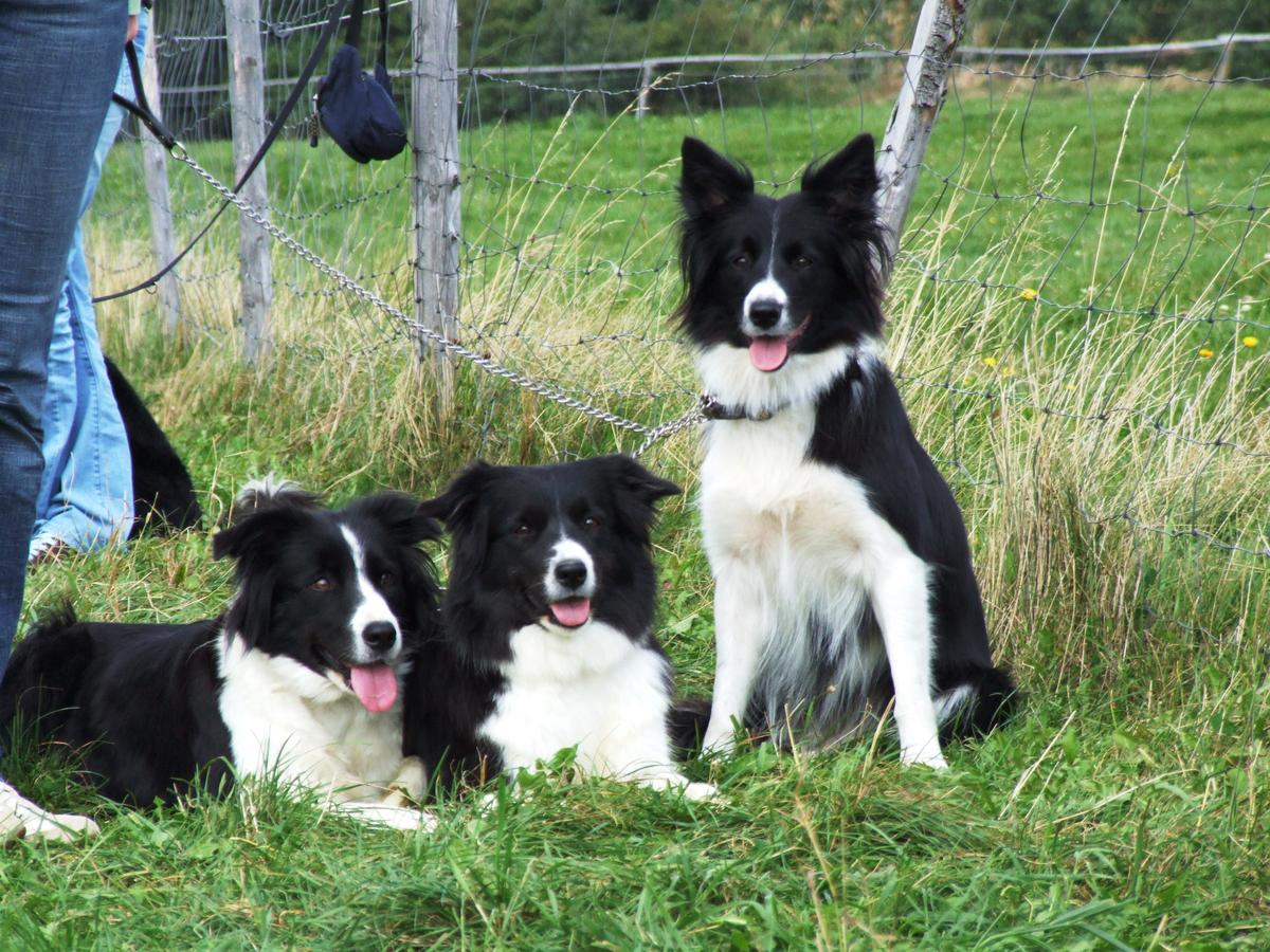 Border Collie